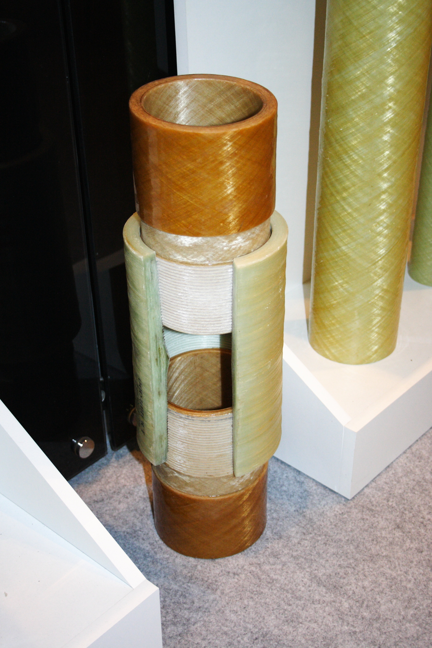 Screw connection of fiberglass pipes (conical self-seal screw)